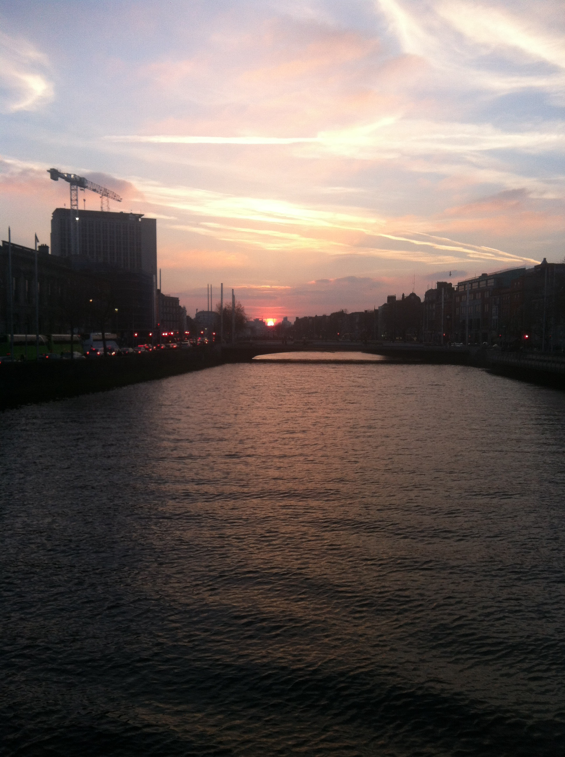 This is a photo of the sunset over the River Liffey in central Dublin.